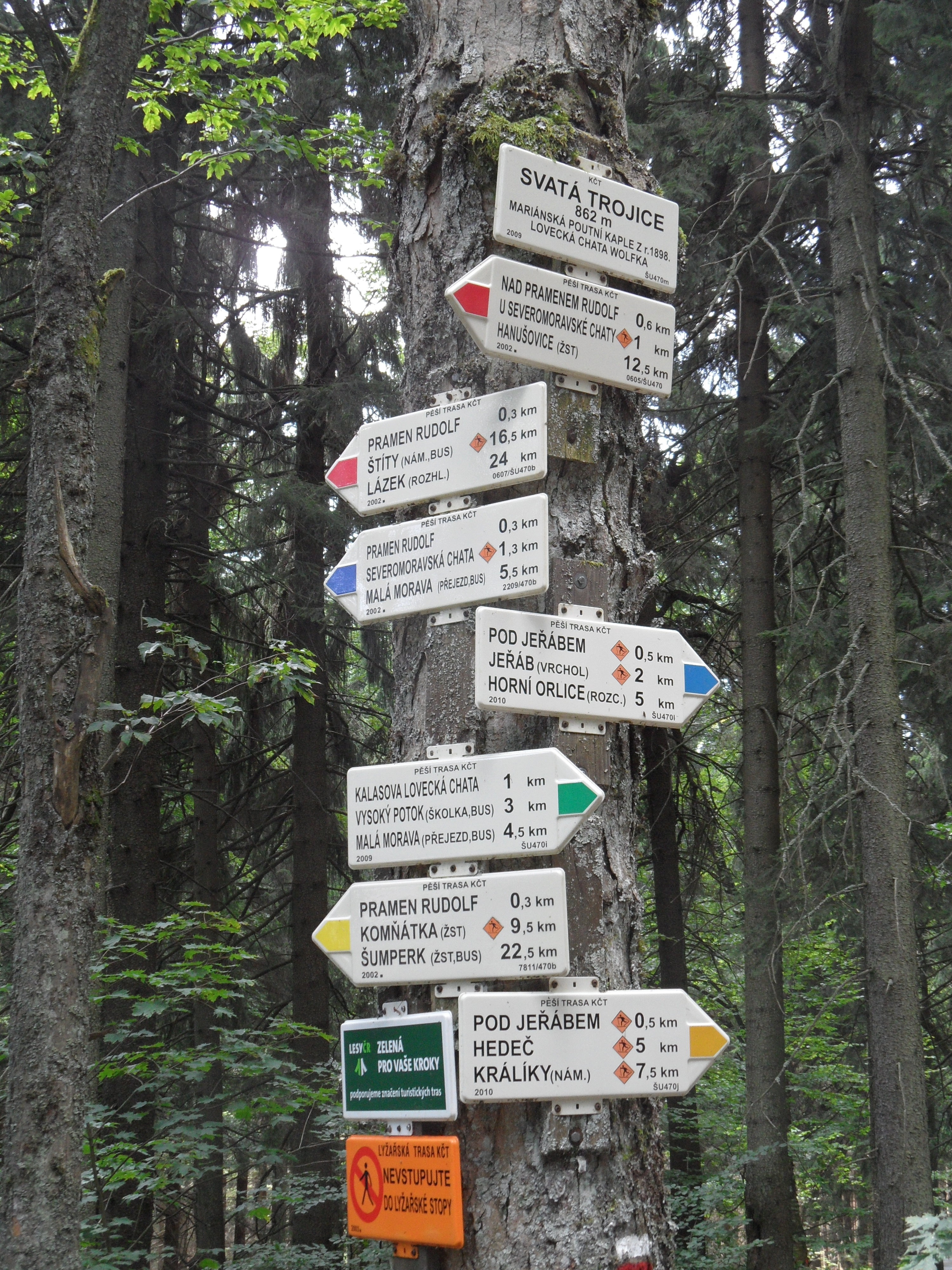 Vysoký Potok: Crossroads of Hiking Paths near Chapel of the Holy Trinity. Šumperk District, the Czech Republic.